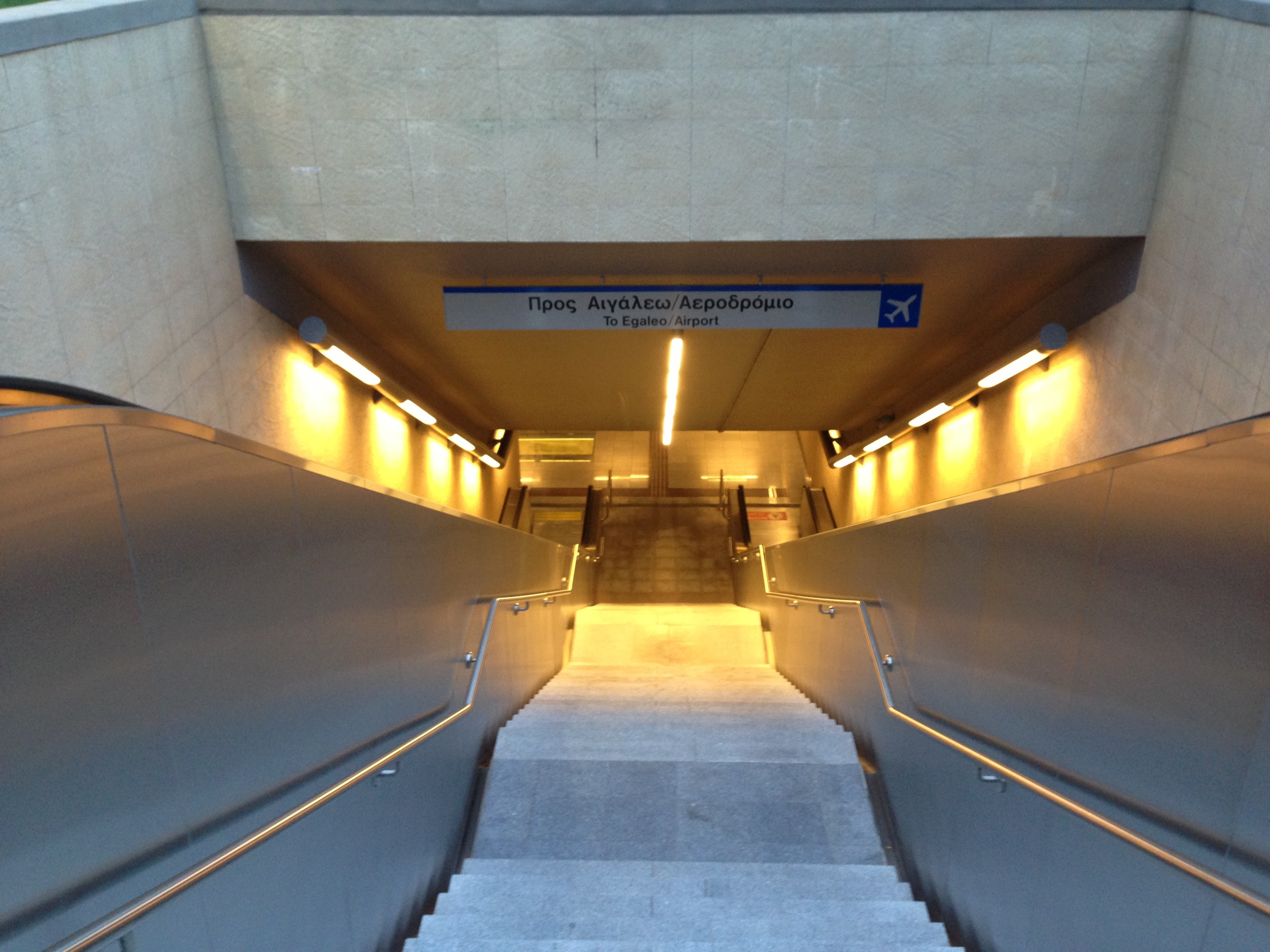 Holargos metro station, Athens Metro, line 3